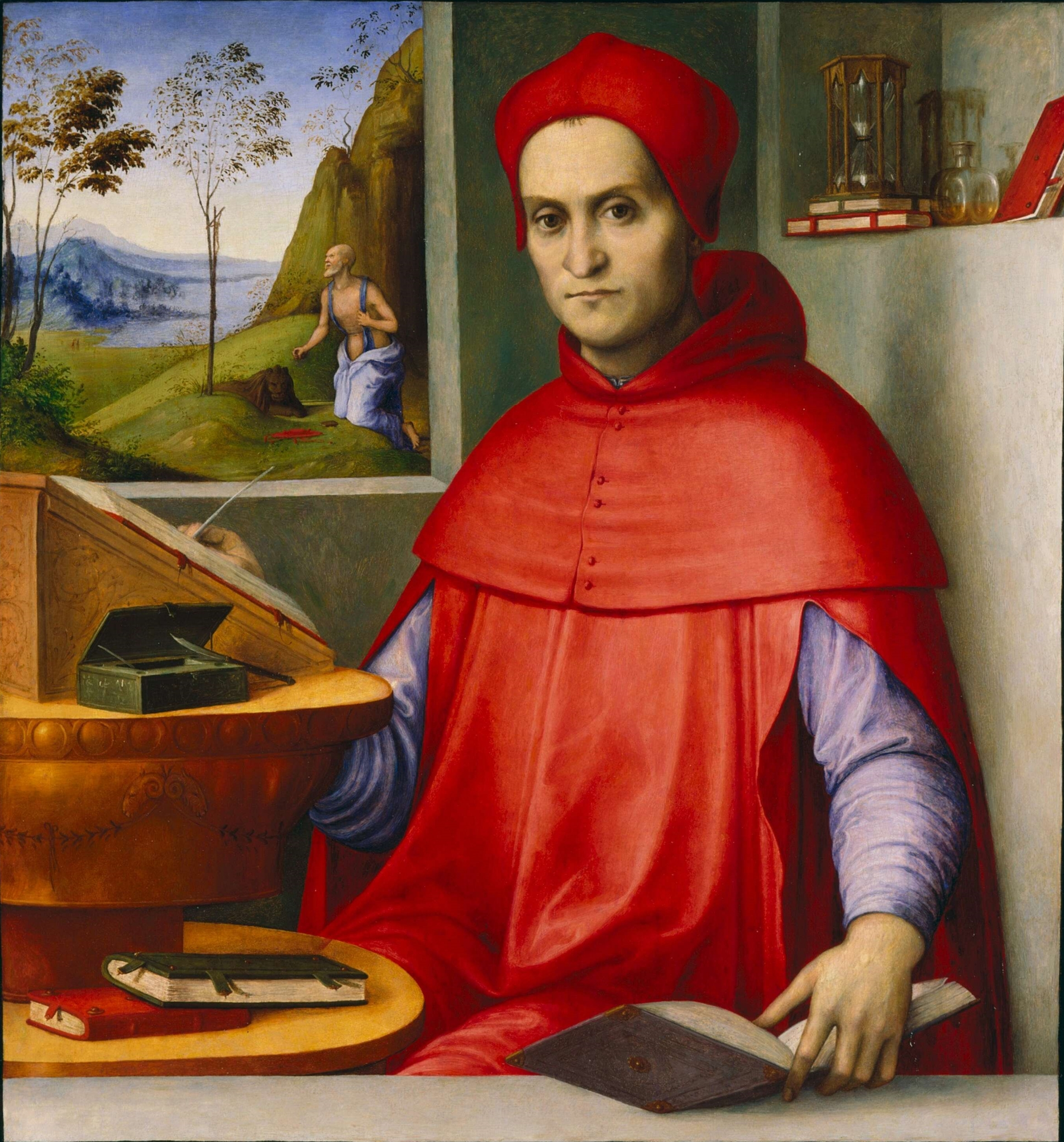 possibly Cardinal Bibbiena